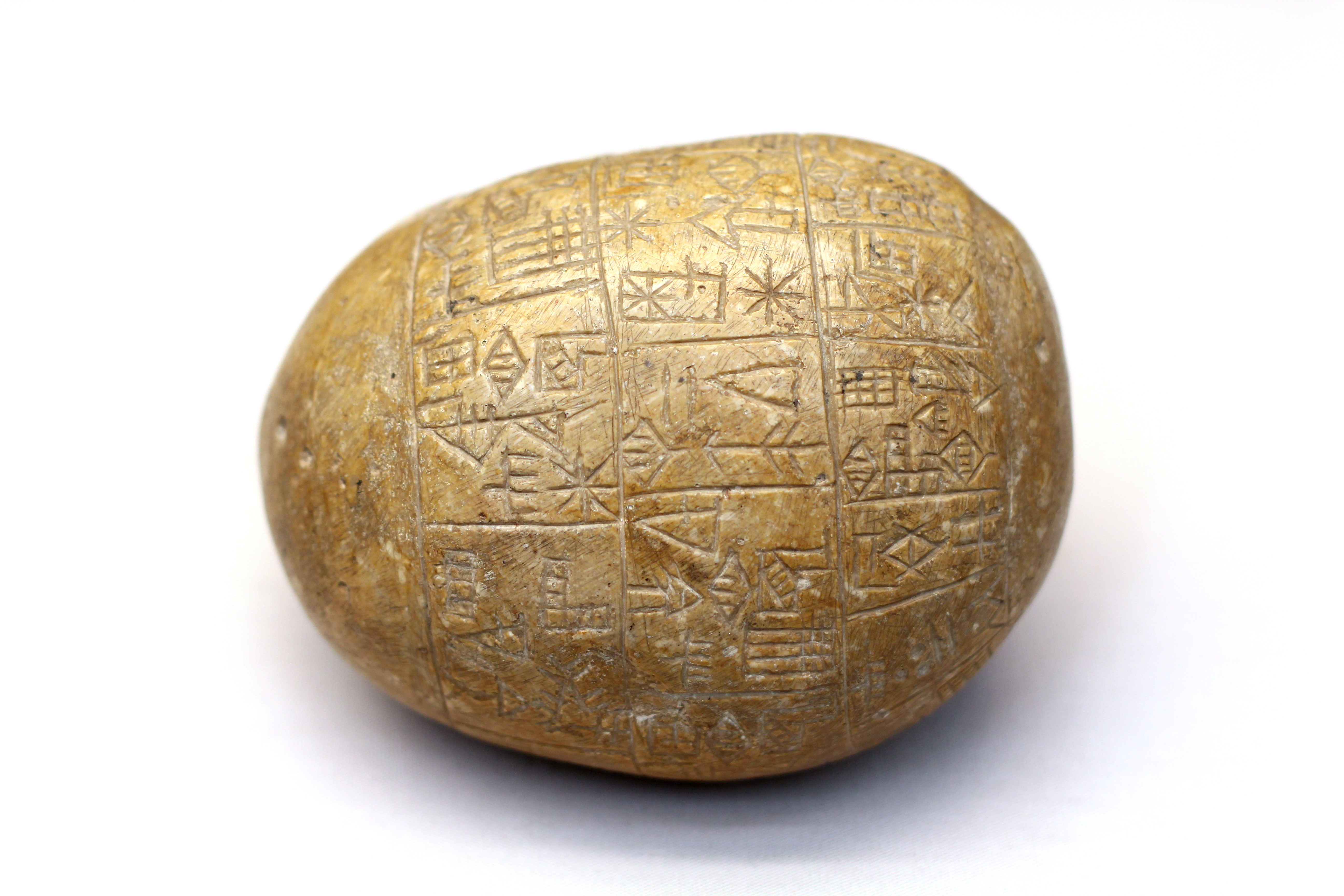 Inscribed giant river-worn pebble In the inscription King Enannatum reminds the gods of his prolific temple building achievements in his city of Lagash. About 2400 BC (Early Dynastic III) From Girsu Museum Reference: ME 114399 British Museum Native nameBritish MuseumLocationLondonCoordinates51° 31′ 10.16″ N, 0° 07′ 37.28″ W Established1753Web page control : Q6373 VIAF: 134857252 ISNI: 0000 0001 1941 5845 ULAN: 500125180 LCCN: n79107735 NLA: 35022119 WorldCat institution QS:P195,Q6373